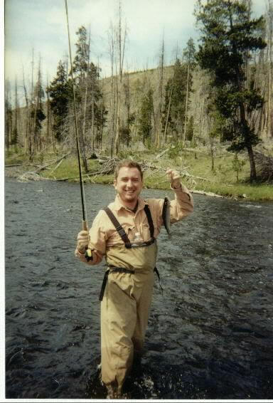 This is me, Michael Westbrook, fly fishing in Firehole River.